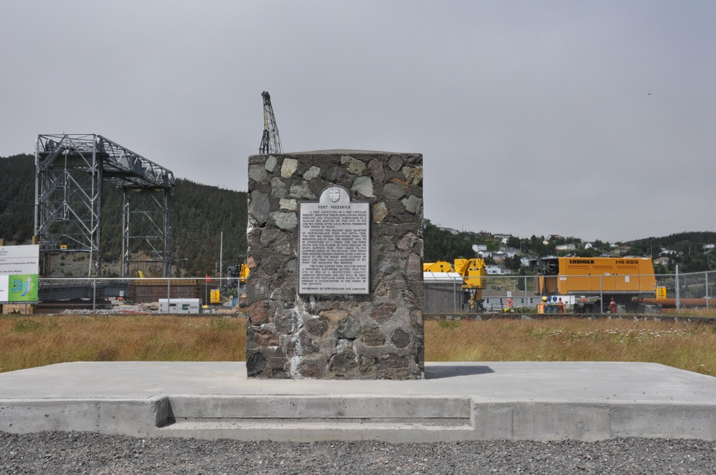 Fort Frederick plaque, Placentia, Newfouldland.